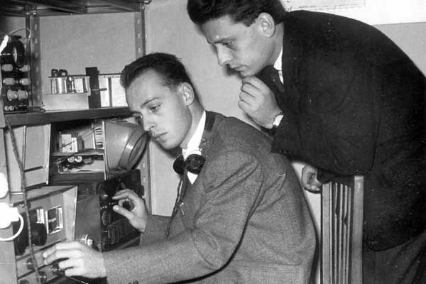 The Judica-Cordiglia brothers, Achille (1933–2015) and Giovanni Battista (1939–), radio amateurs of Turin, Italy.